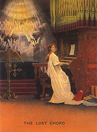 Illustrates the song "The Lost Chord", composed by Arthur Sullivan in 1877